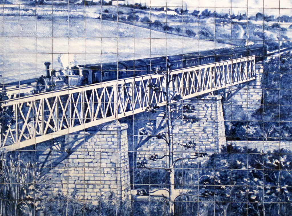 The bridge spans the valley between Oeiras and Santo Amaro. It was built around 1889, but its two iron floors were replaced in 2002-03. This azulejo mural decorates the Oeiras train station - artist and date unknown.